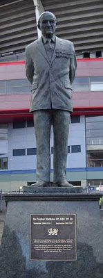 9ft bronze sculpture of Sir tasker Watkins VC at the Millennium Stadium Cardiff